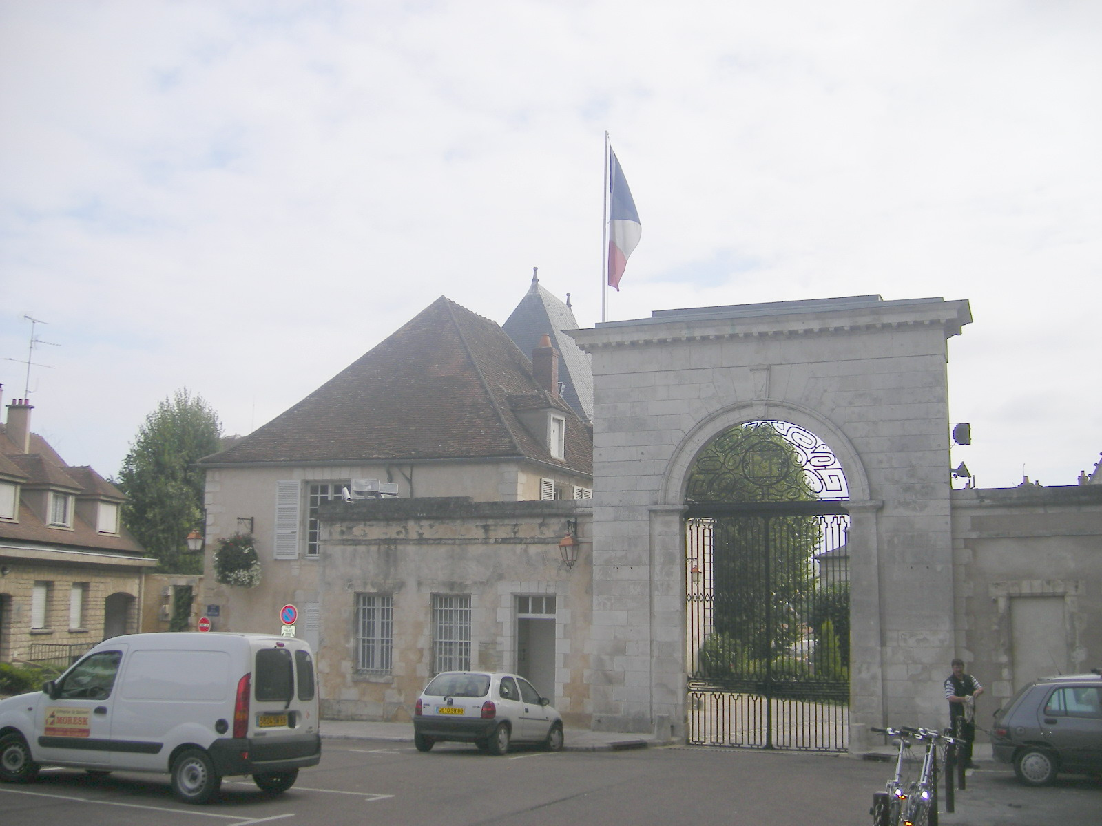 Auxerre - prefecture of Yonne